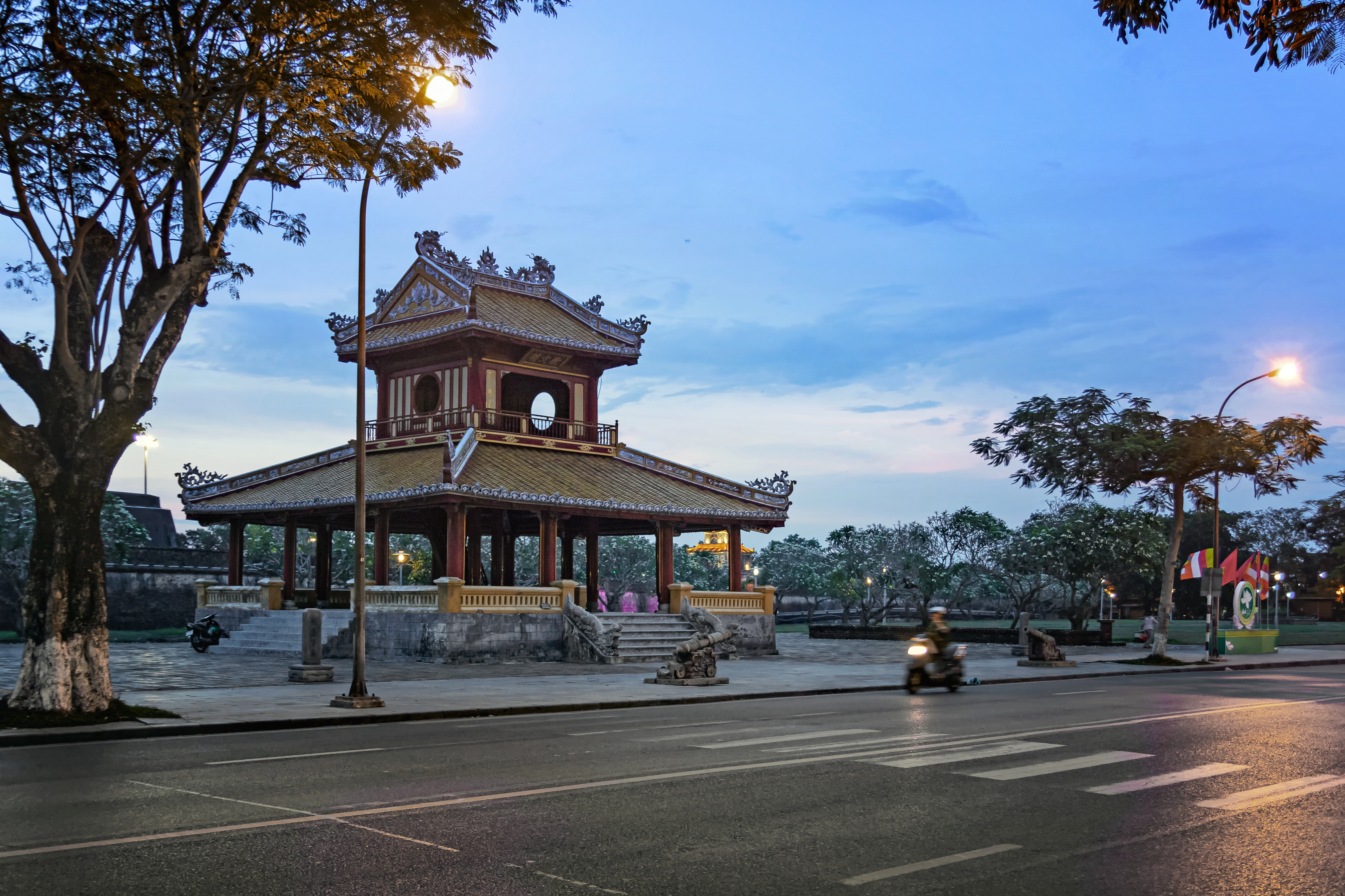 In 1819 under the reign of Gia Long, Phu Van long (phu: display, writing: a letter, long: upper floor) was erected to serve as a place to post important examples of the king and the court, or as a result. royal examinations ... This monument has been renovated many times, but still retains the typical characteristics of the architecture of the Nguyen Dynasty.